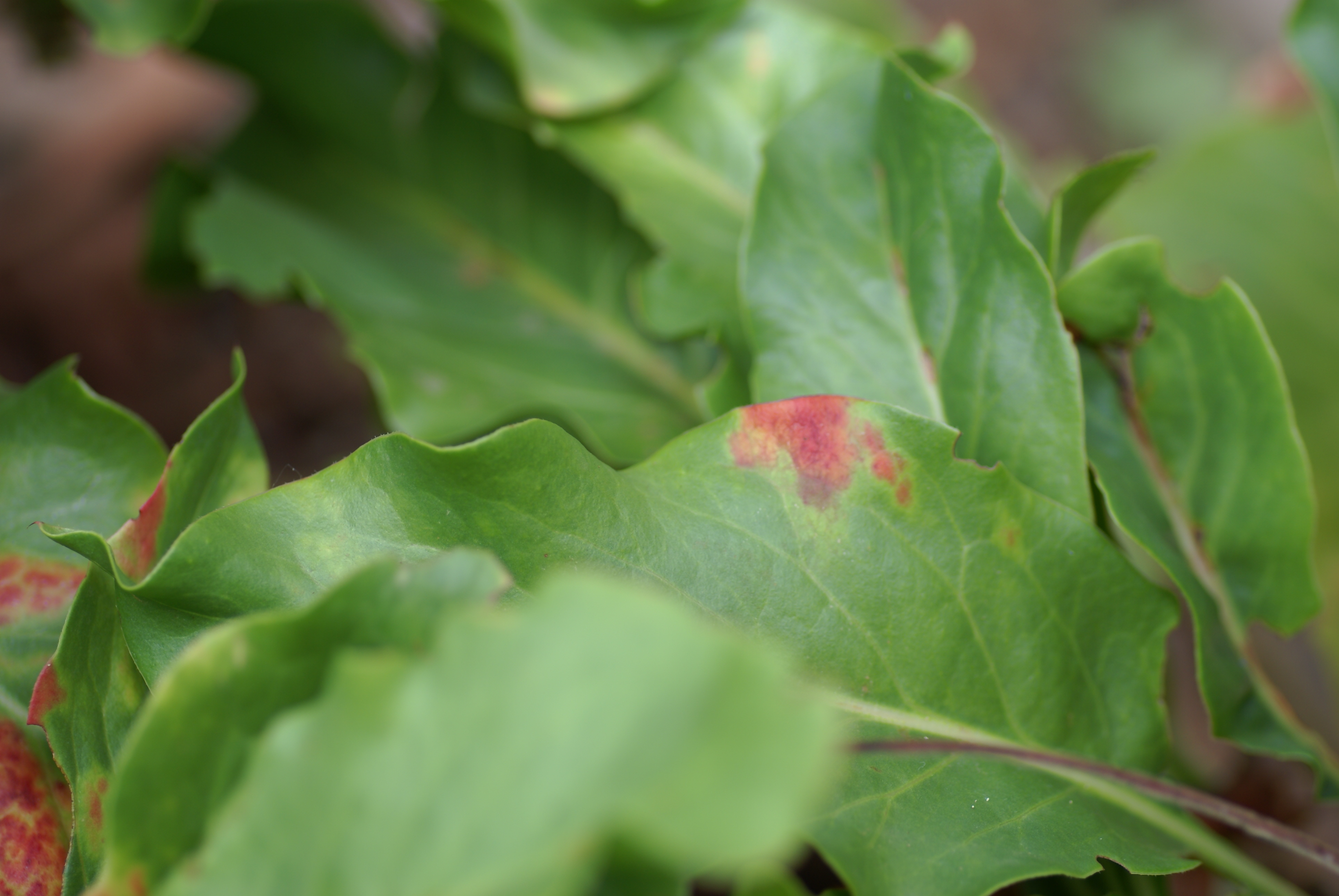 Leaves of plant species Limonium macrophyllum in botanical garden in Puerto de la Cruz on Tenerife.